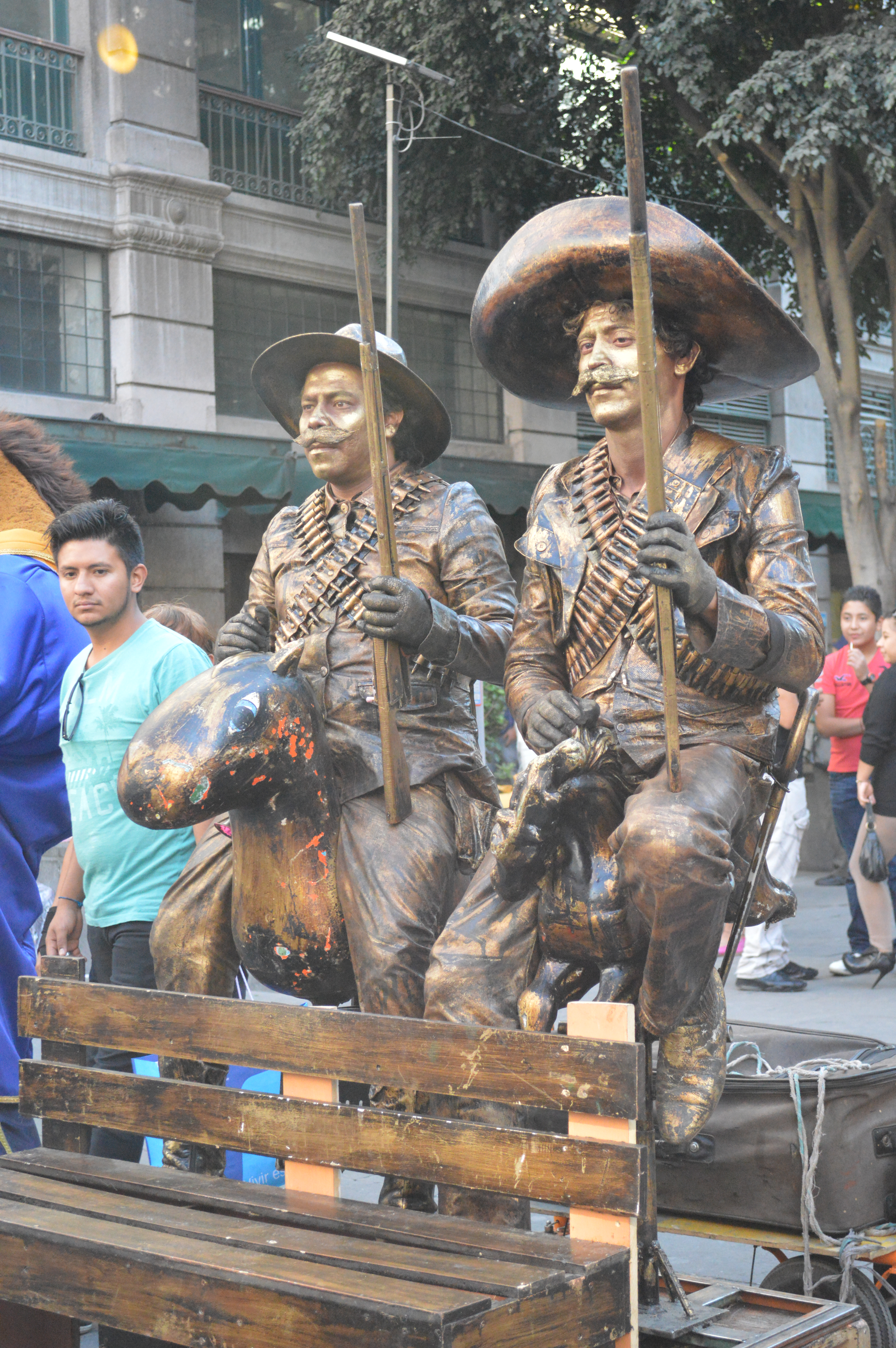 Living statues of Mexican Revolution soldiers on Madero Street in Mexico City